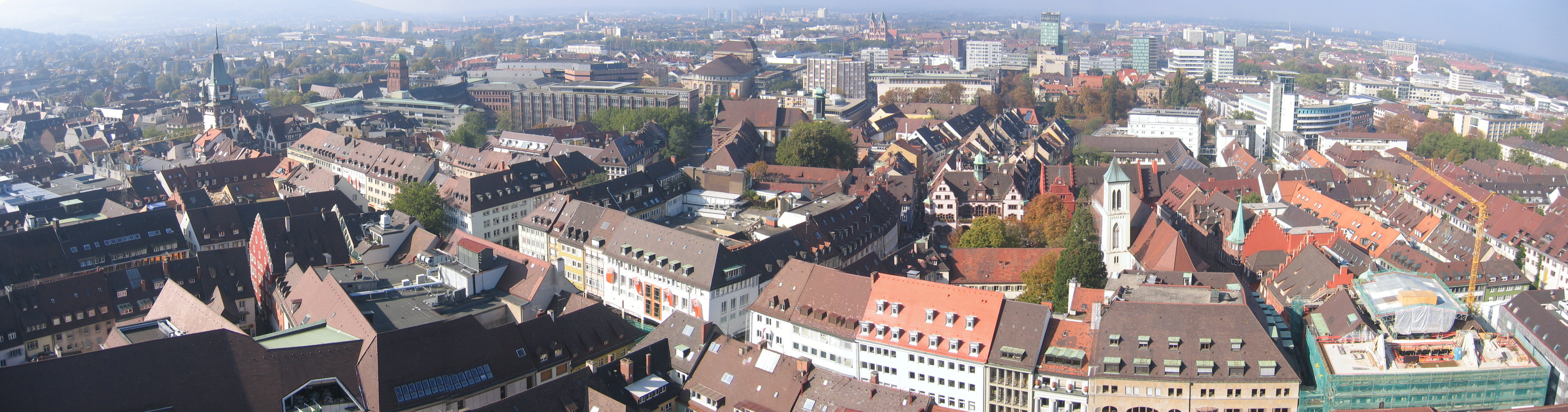 Freiburg as seen from the minster